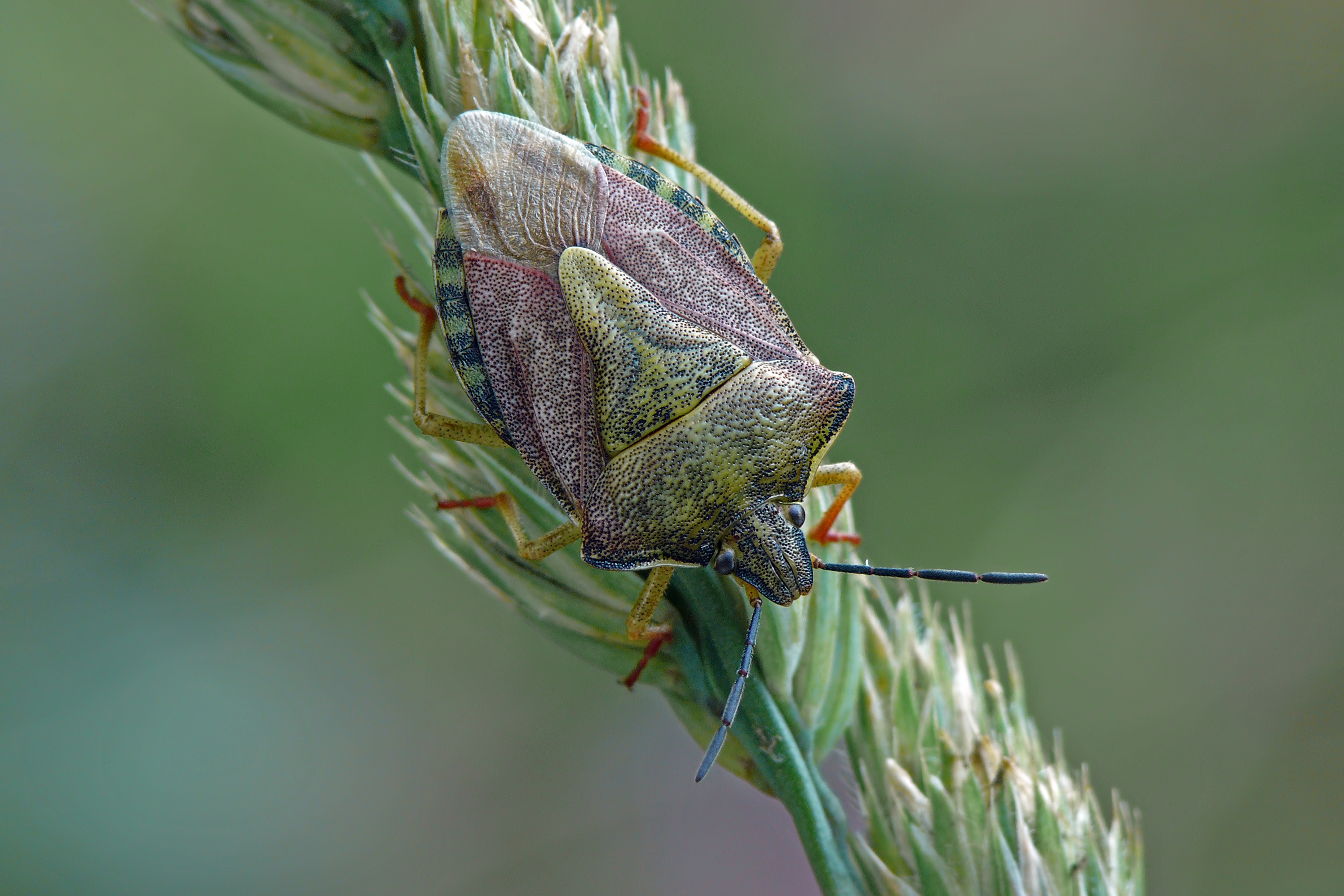 Carpocoris purpureipennis. Photo taken in Rūkainių forest, Lithuania